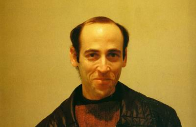 Photograph